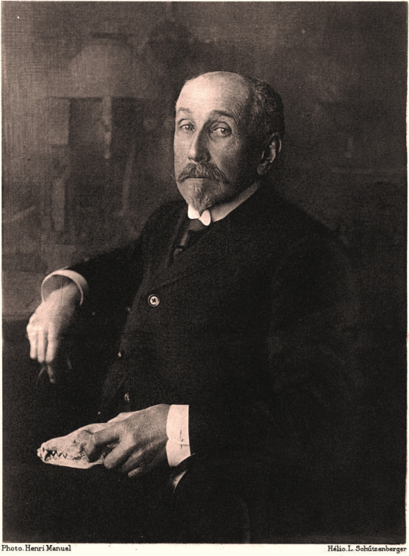 Édouard Louis Trouessart by Henri Manuel; official portrait of the Muséum national d’histoire naturelle, Paris